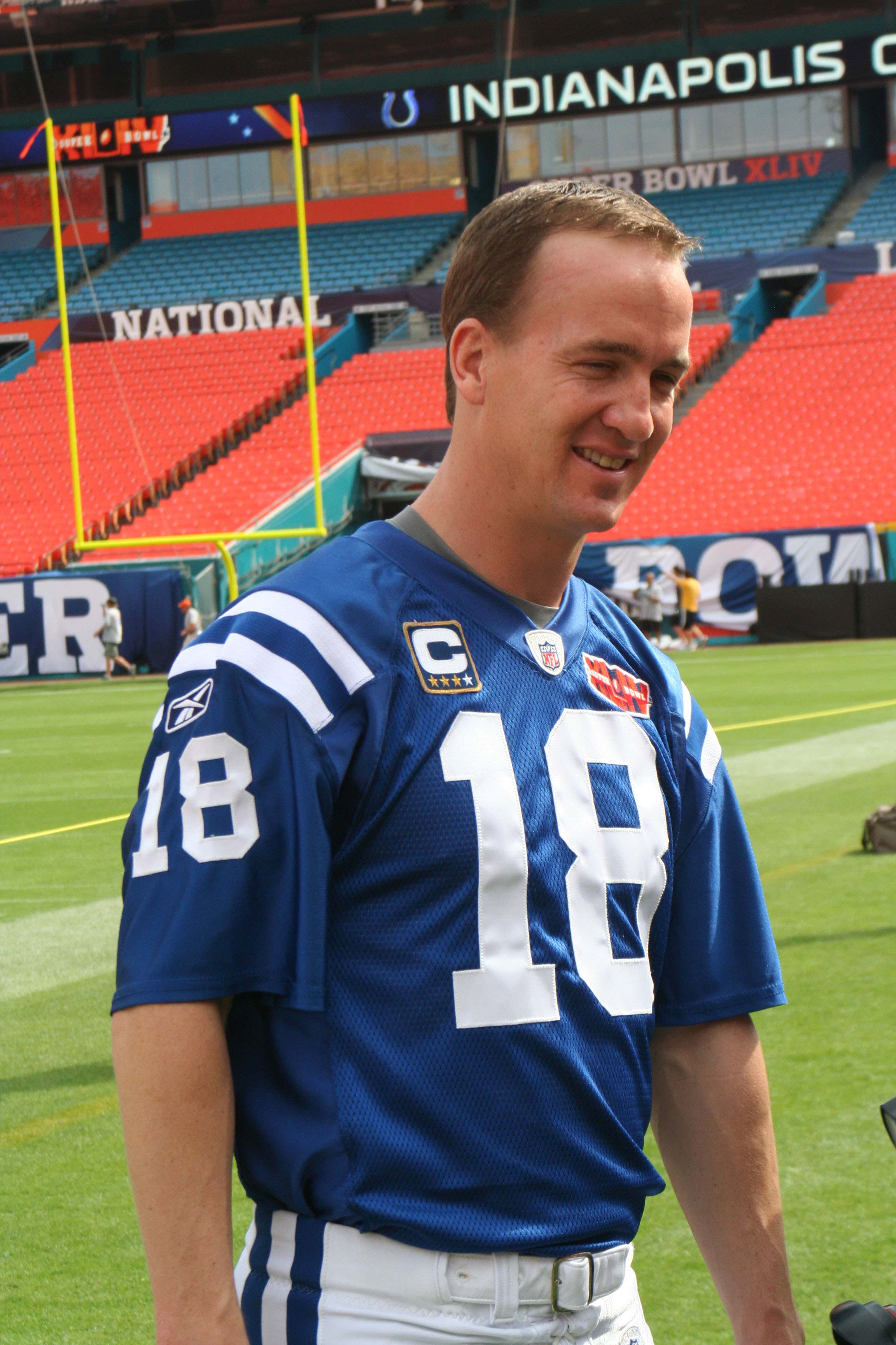 On the field Super Bowl week for team photo